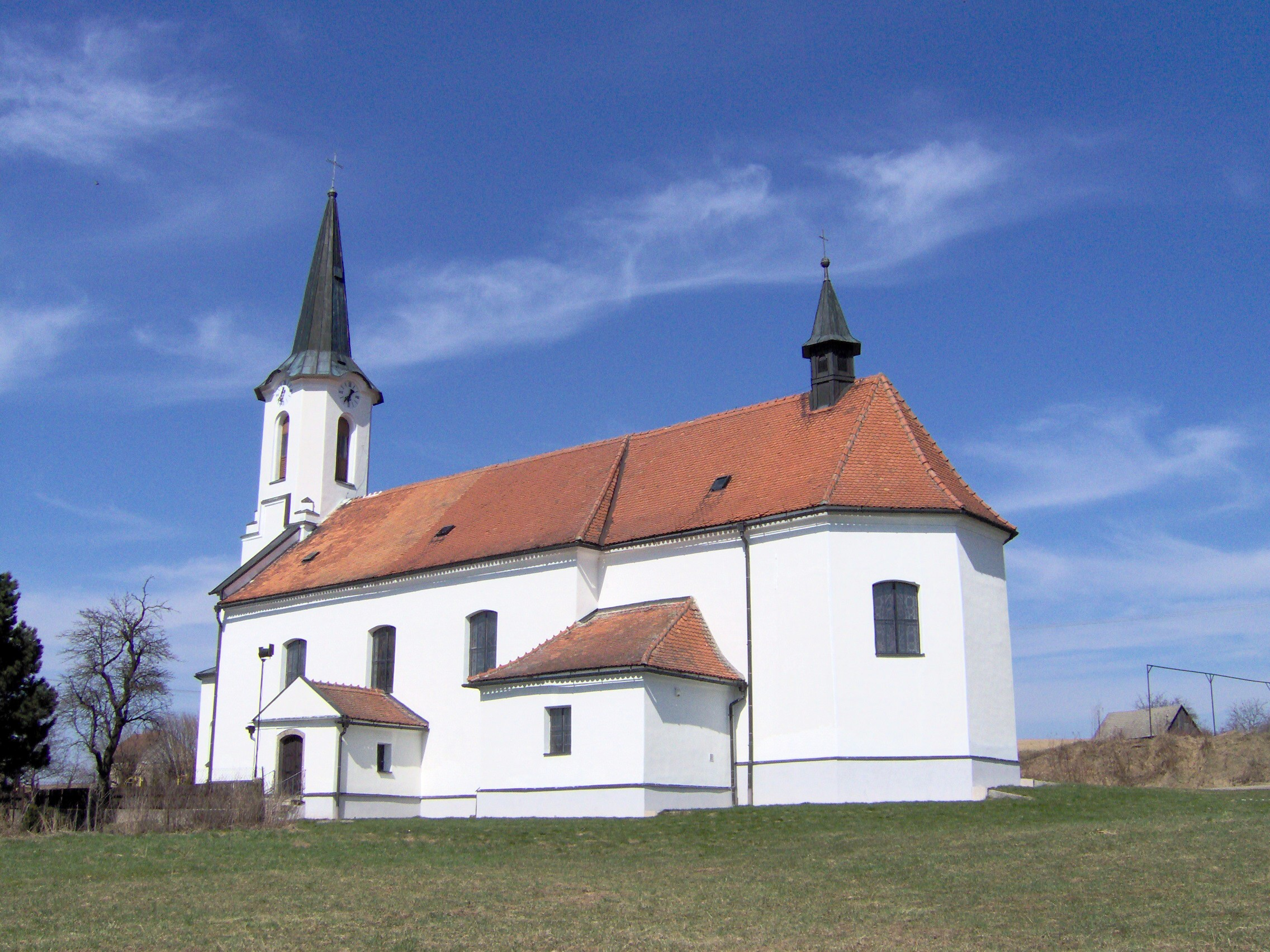 Březí village, Žďár nad Sázavou District, Czech Republic